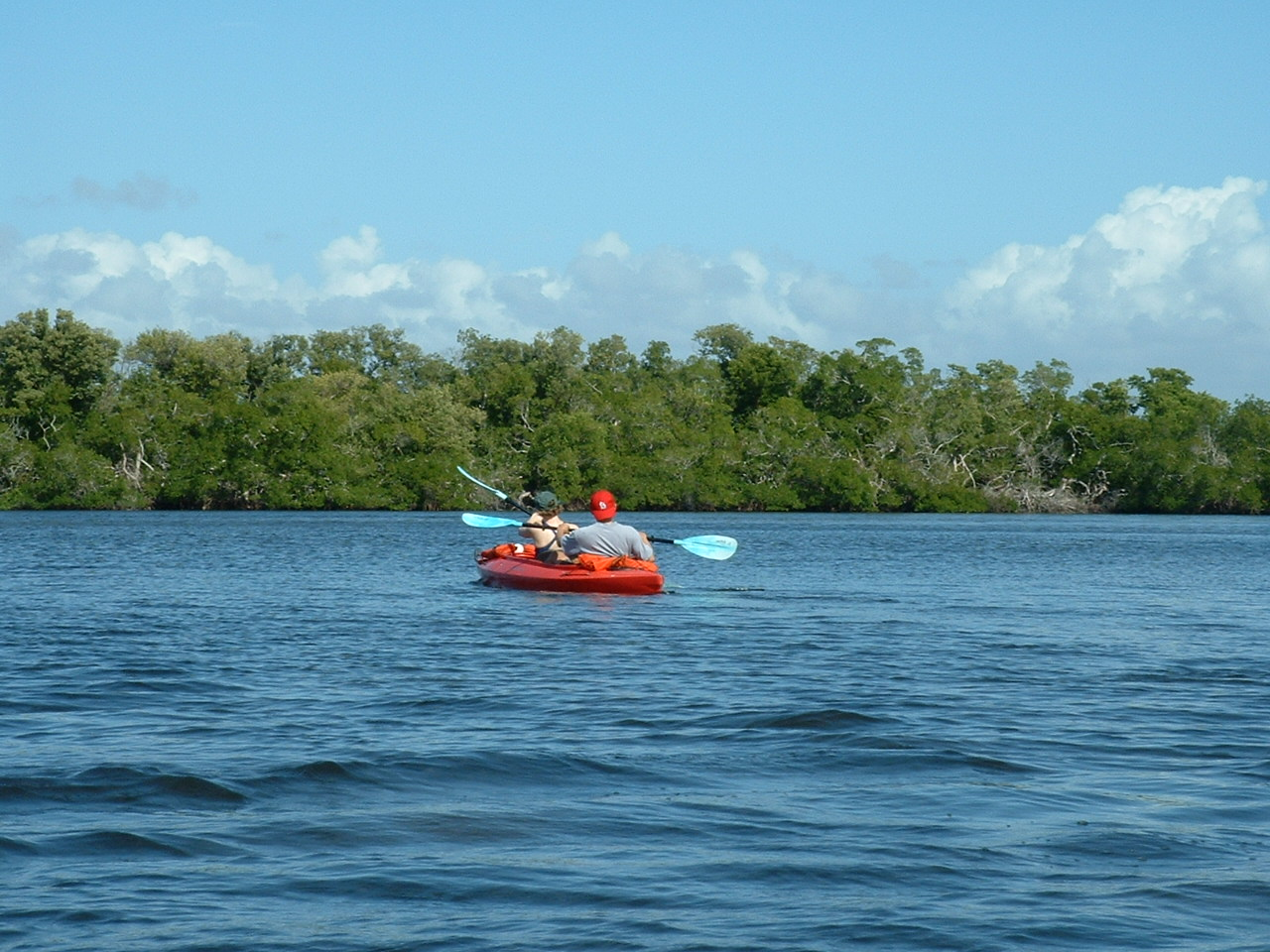 Kayaking with our guide to show us the wonders of Estero Bay near Fort Myers Beach, Florida